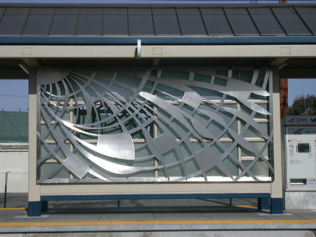 Metal screens designed by San Jose, CA artist Diana Pumpelly Bates that adorn the Bascom station of the Santa Clara VTA light rail system.